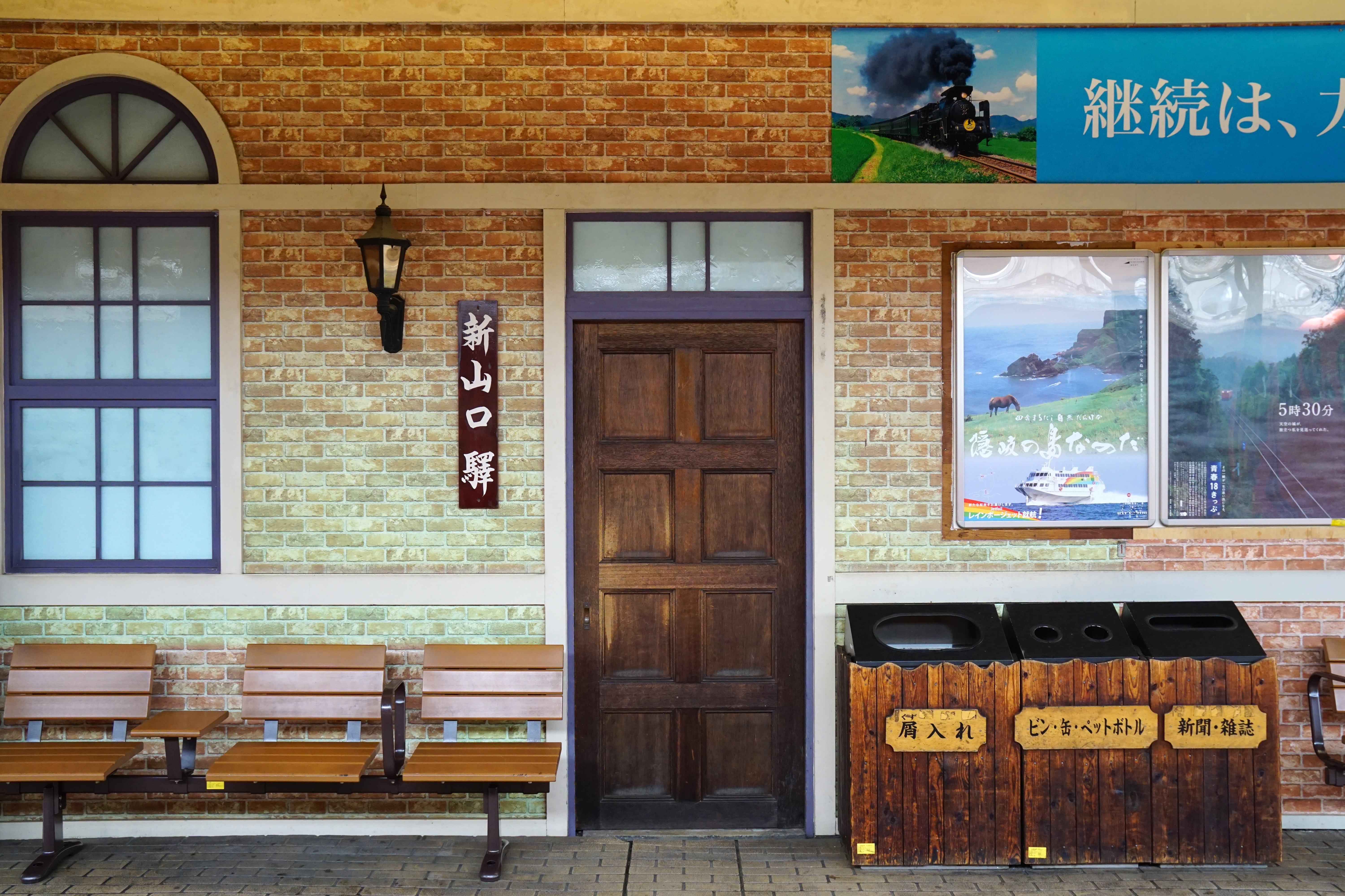 Shin-Yamaguchi Station in Yamaguchi, Yamaguchi prefecture, Japan.